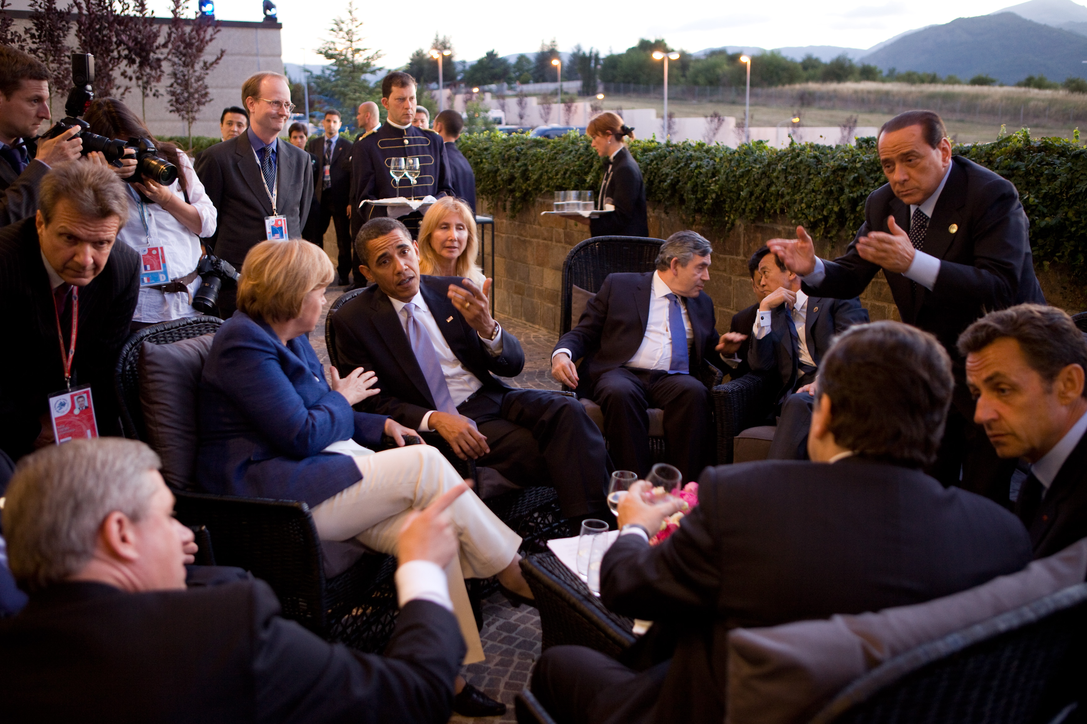 Canadian Prime Minister Stephen Harper, German Chancellor Angela Merkel, US President Barack Obama, UK Prime Minister Gordon Brown, Japanese Prime Minister Taro Aso, Italian Prime Minister Silvio Berlusconi, and French President Nicolas Sarkozy, (Russian representative not pictured) confer together while attending the G-8 summit in L'Aquila, Italy, July 8, 2009.